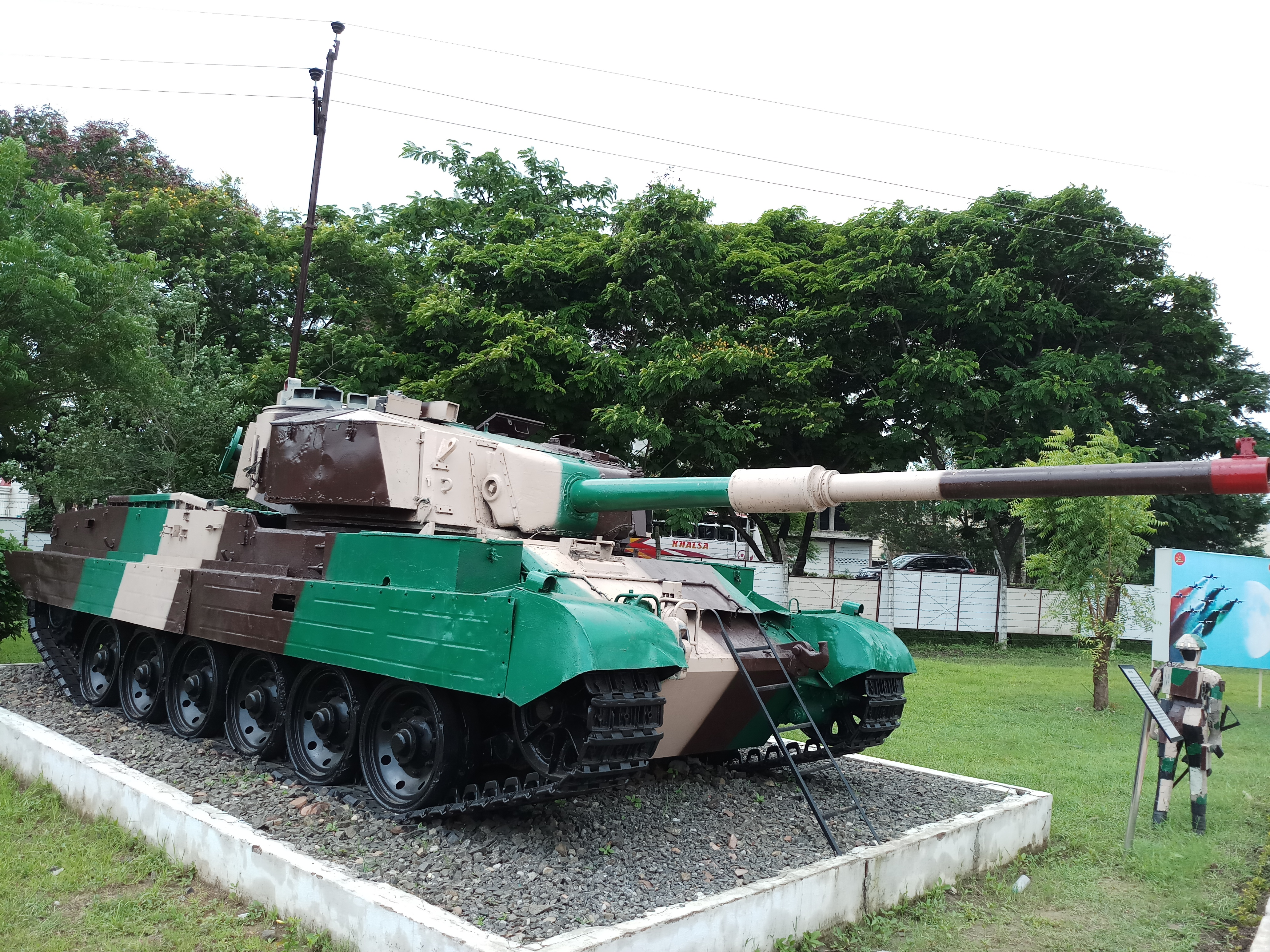 VIJAYANTA TANK